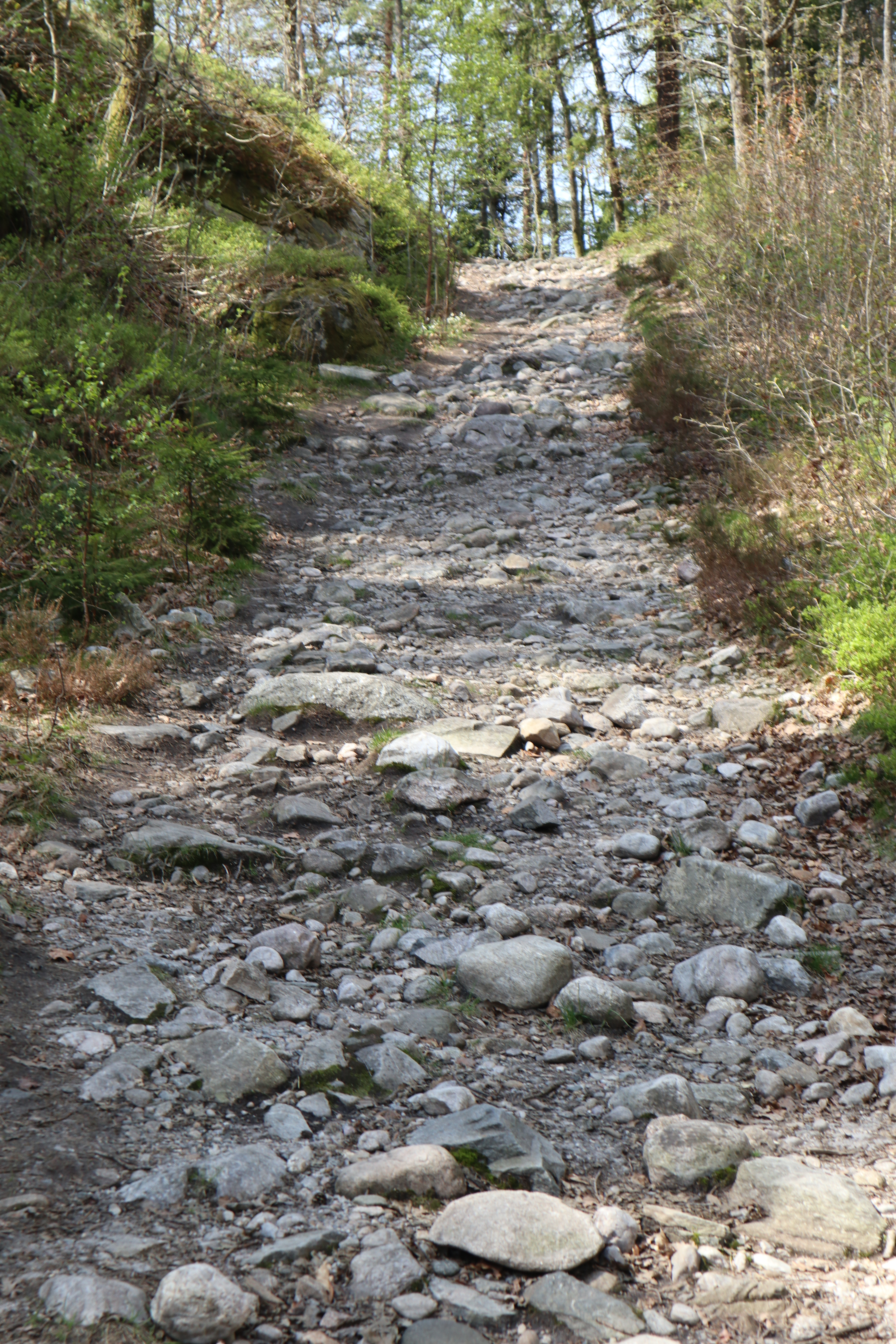 A path up on top of Raet , Dømmesmoen Grimstad